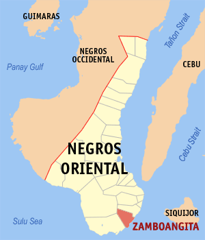 Map of Negros Oriental showing the location of Zamboanguita